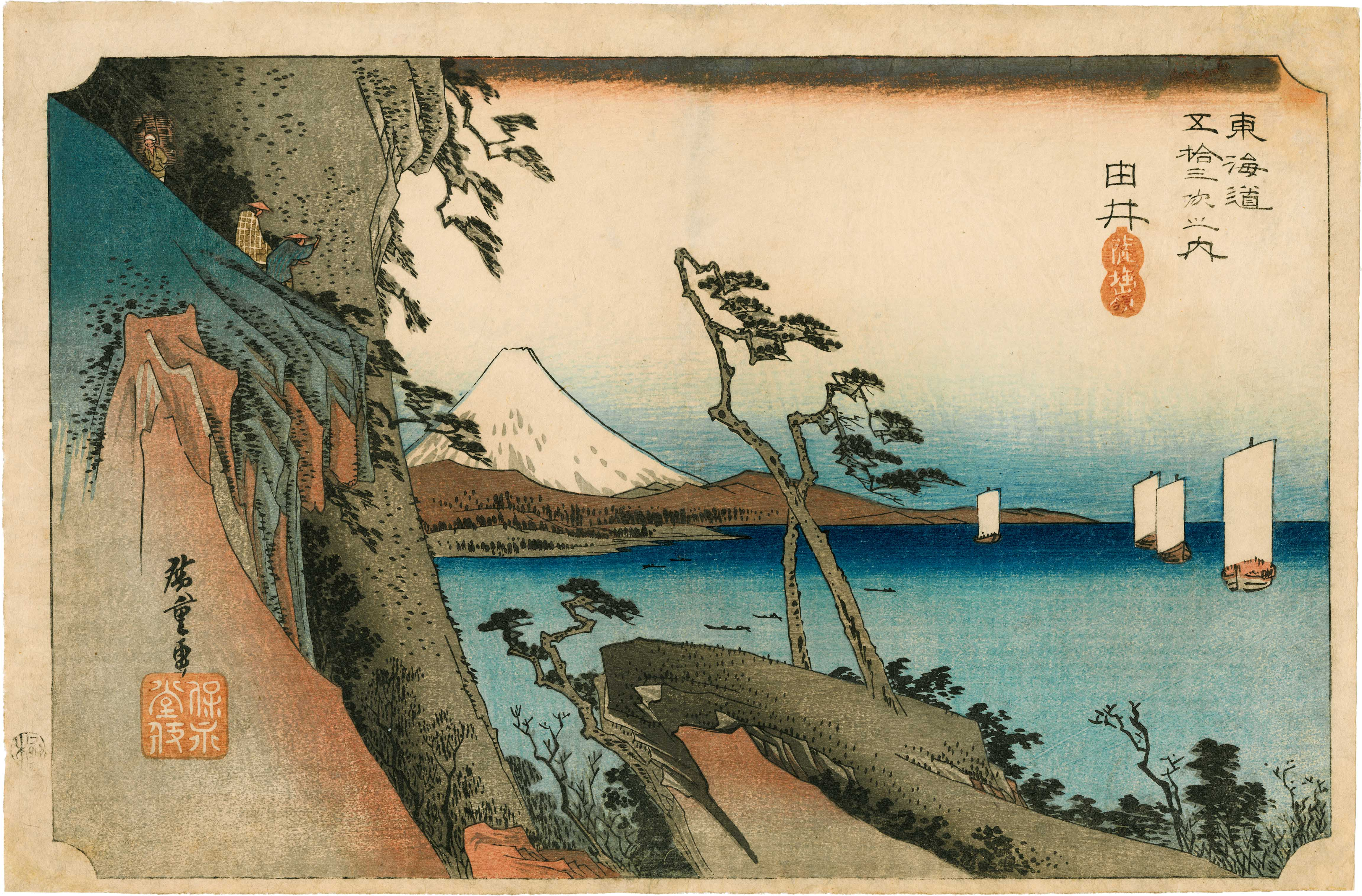 Yui on the Tokaido, ukiyo-e prints by Hiroshige